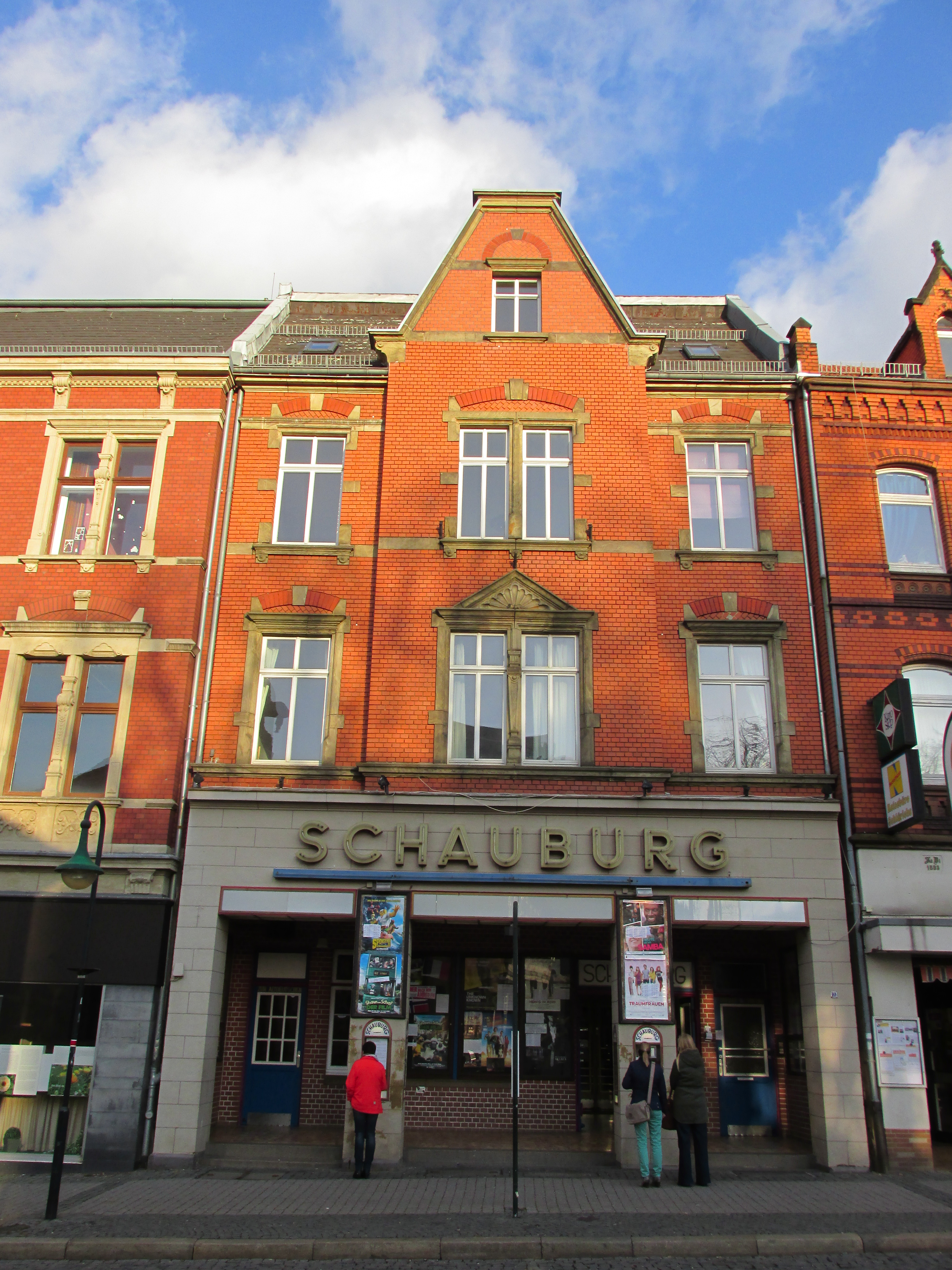 Cinema Neue Schauburg, Northeim, Germany check usage Address Markt 10 37154 Northeim Germany Date11 March 2015SourceOwn work. (→ weitere 1,982 Bilder von mir in der Galerie)AuthorStefan FlöperPermission (Reusing this file) cc-by-sa-3.0, gfdl 1.2+